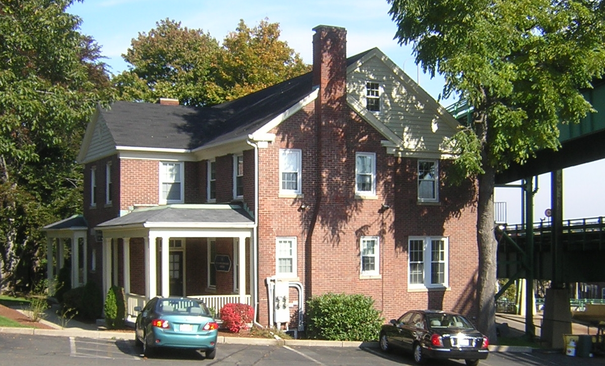 Naval Hospital Building, Chelsea, MA. This building is not part of the Historic District.